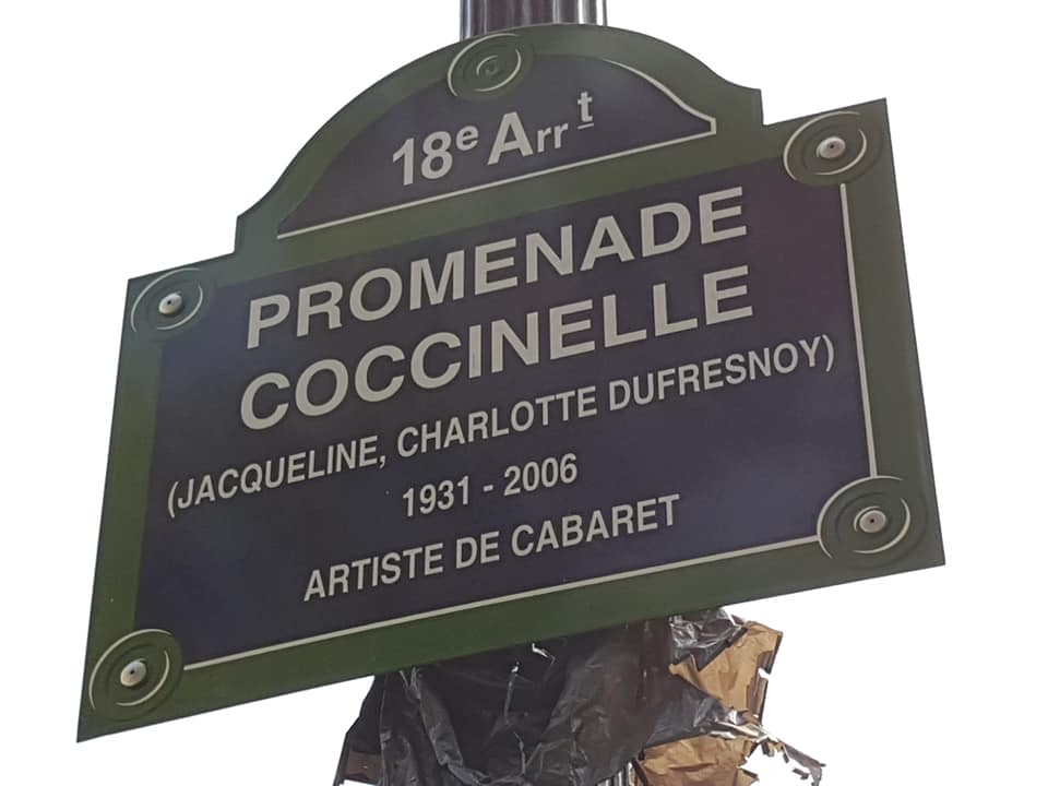 Street sign at Promenade Coccinelle